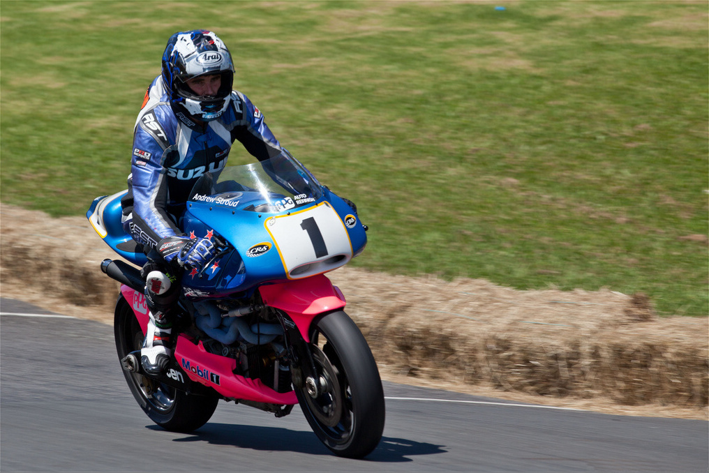 Andrew Stroud on the Britten V1000 at Paeroa, Waikato, New Zealand in February, 2011